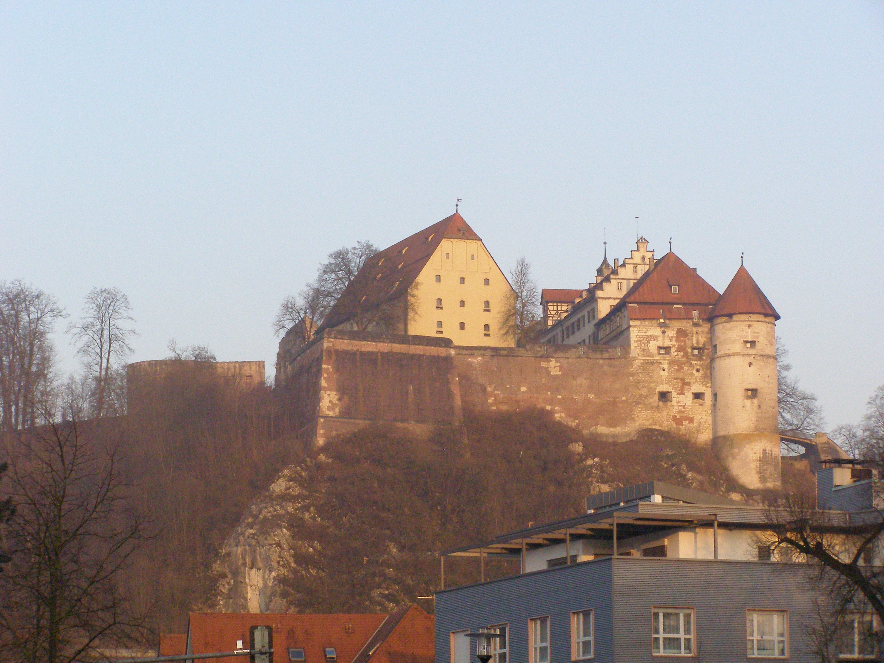 Heidenheim an der Brenz - Hellenstein castle